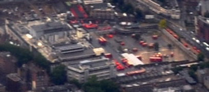 Aerial view of Royal Mail Mount Pleasant Sorting Office